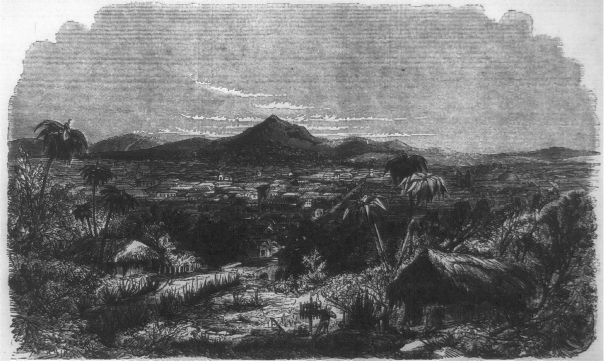 View of City of Leon, Nicaragua, 1856